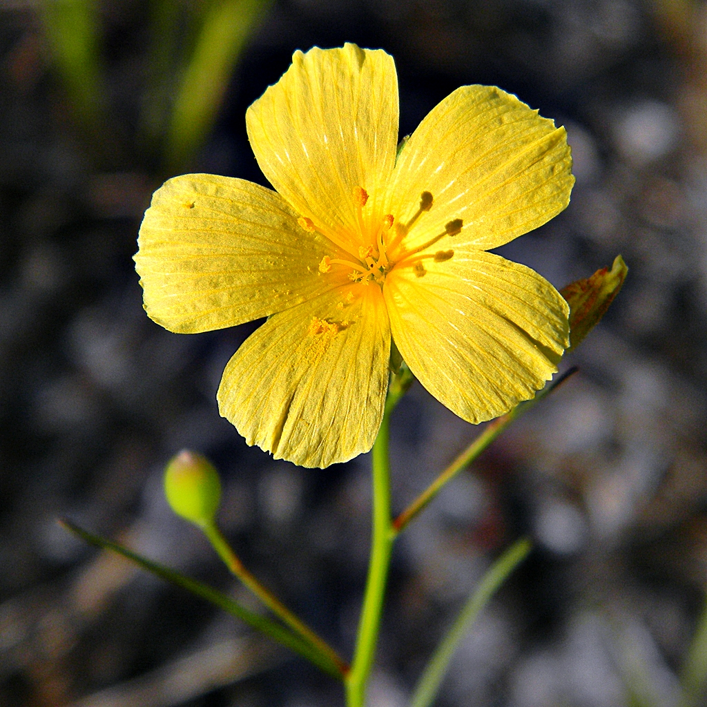 Pitted Stripeseed at Juno Dunes Natural Area.